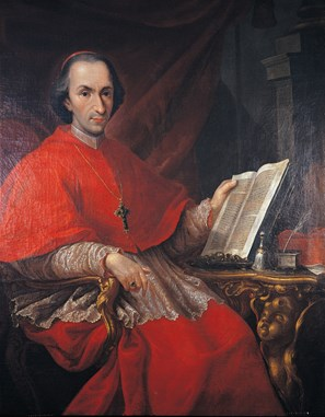 Vitaliano Borromeo (1720-1793), cardinal of the Roman Catholic Church